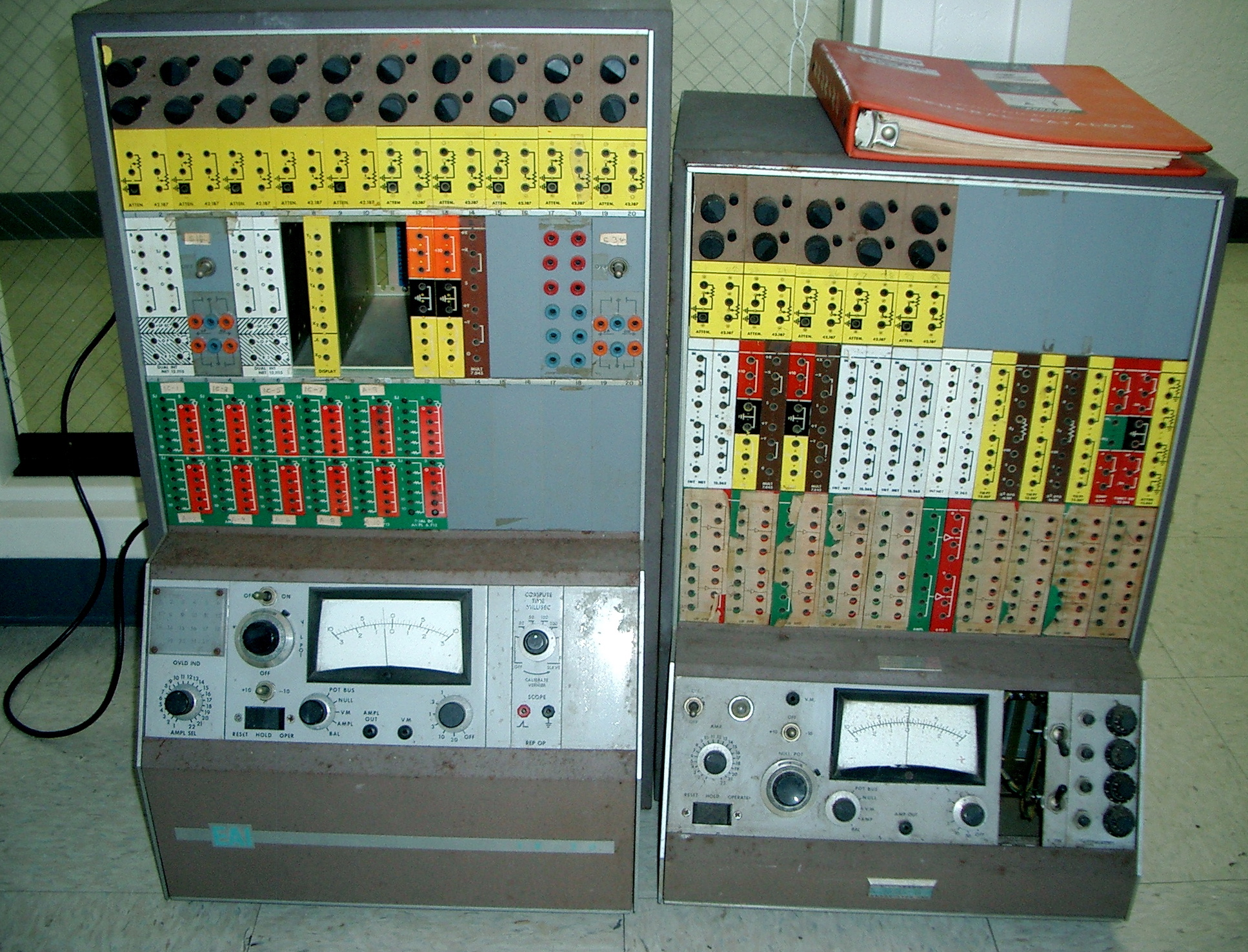 Photo of 2 old analog computers used for solving differential equations in real time. It was programmed by electrical wires connecting summation point operational amplifiers. The units were in use around 1965 to 1970. The models TR-20 (left) and TR-10 (right) were manufactured by Electronic Associates, Inc. (EAI)What's That? (30)